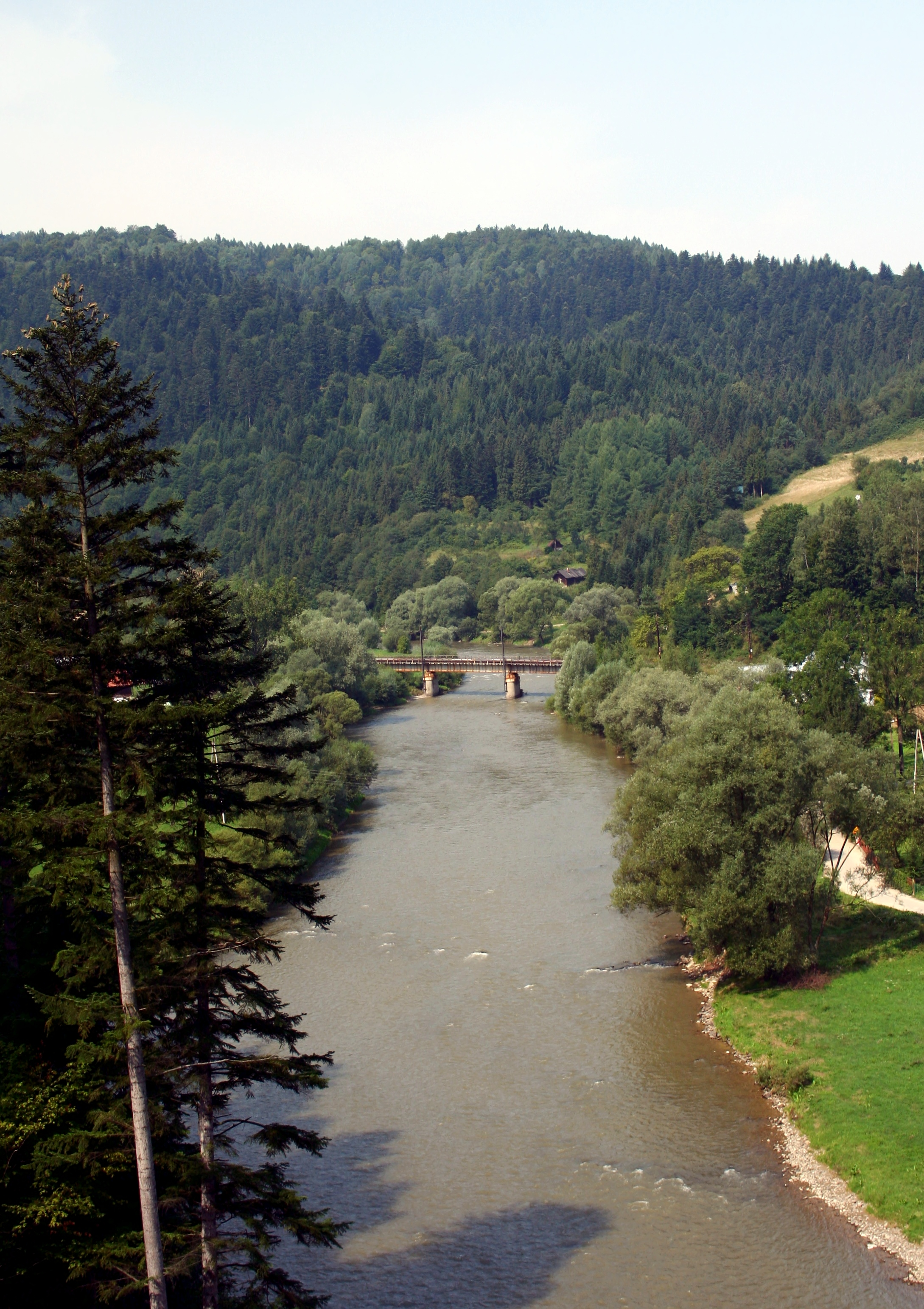 the Poprad river, Poland